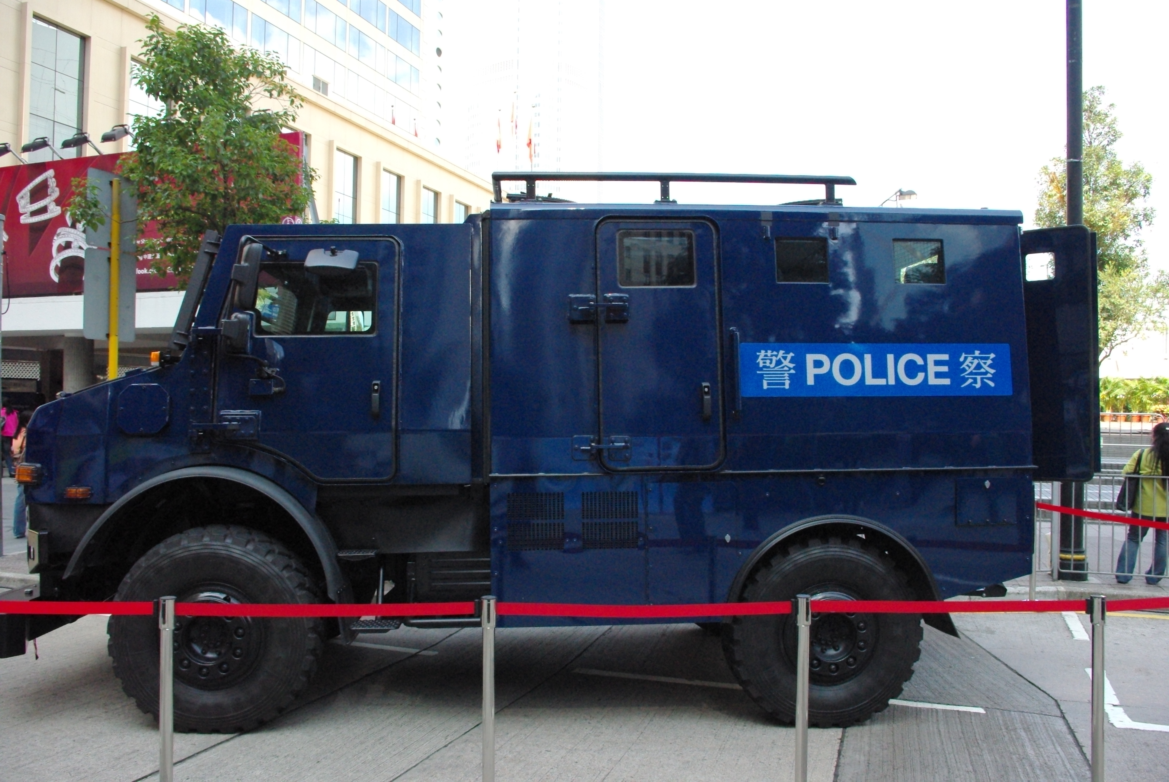 Armoured Unimog personnel carrier of the Hong Kong Police force.